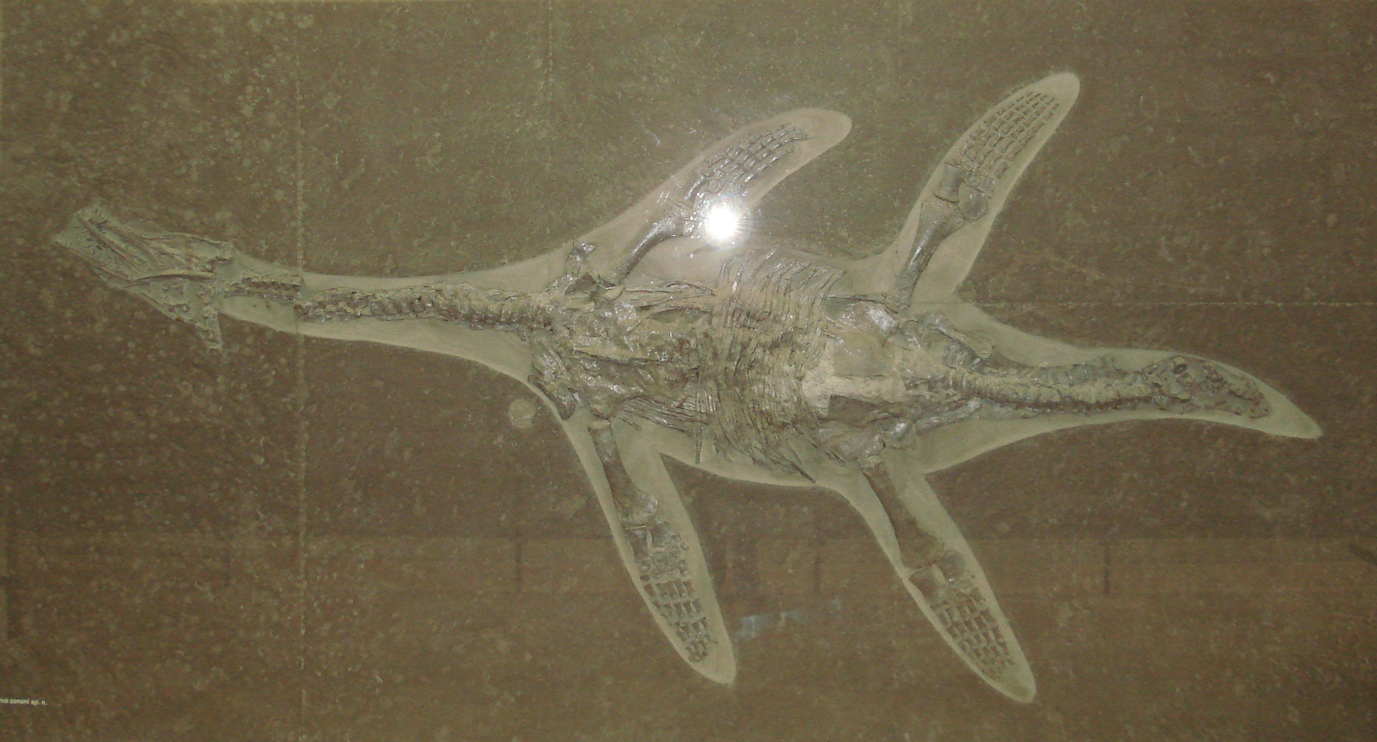 fossil of hauffiosaurus